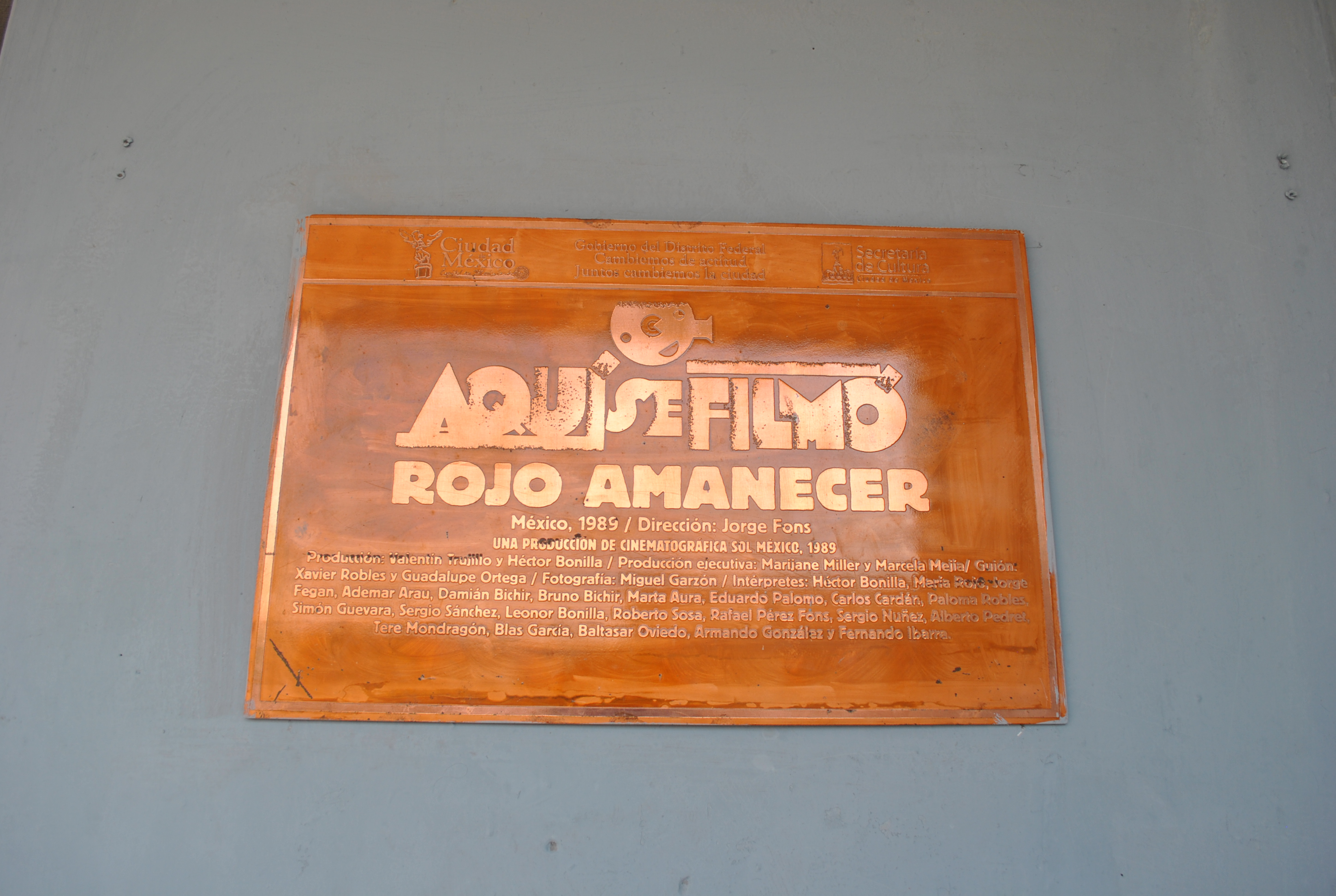 Nameplate indicating the filming of the movie Rojo Amanecer on the Chihuahua building of the Conjunto Urbano Nonoalco Tlatelolco.